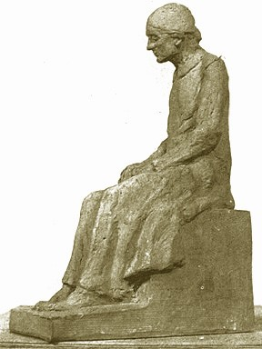 Leoš Kubíček - Old age